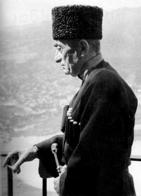 Konstantine Gamsakhurdia, 1911 Georgia Pre-1921 image, unknown author, very old image taken in 1911 in Tiflis, Georgia, Russian Empire